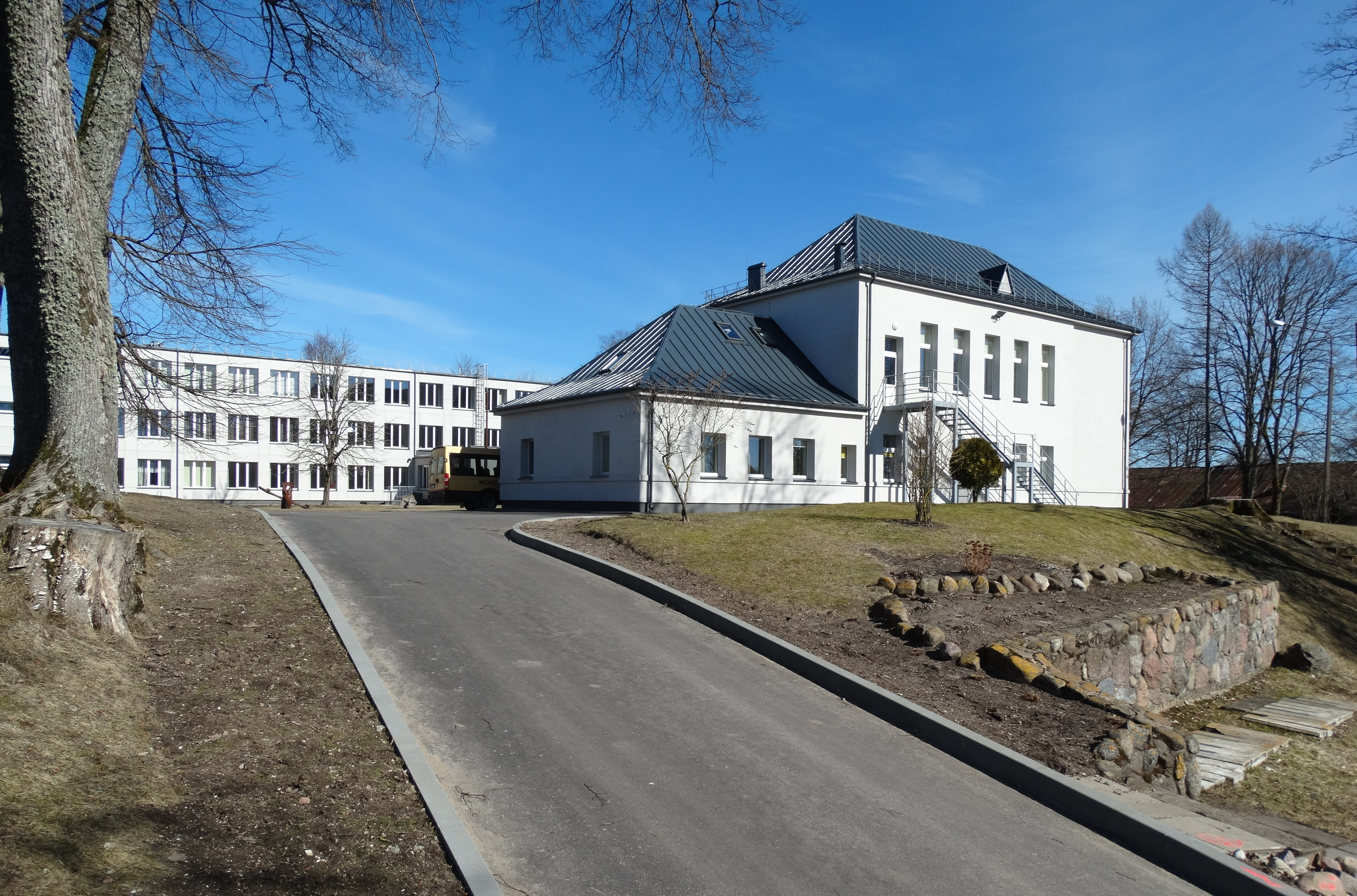 Gymnasium named after Stanisław Narutowicz, Alsėdžiai, Plungė District, Lithuania